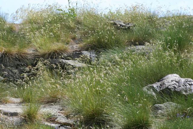 (en) Festuca eskia, a photography originating of the internet site The accord of the autor, H. Brisse, is here. (fr) Festuca eskia, une photographie issue du site internet L'accord de l'auteur, H. Brisse, se situe ici.